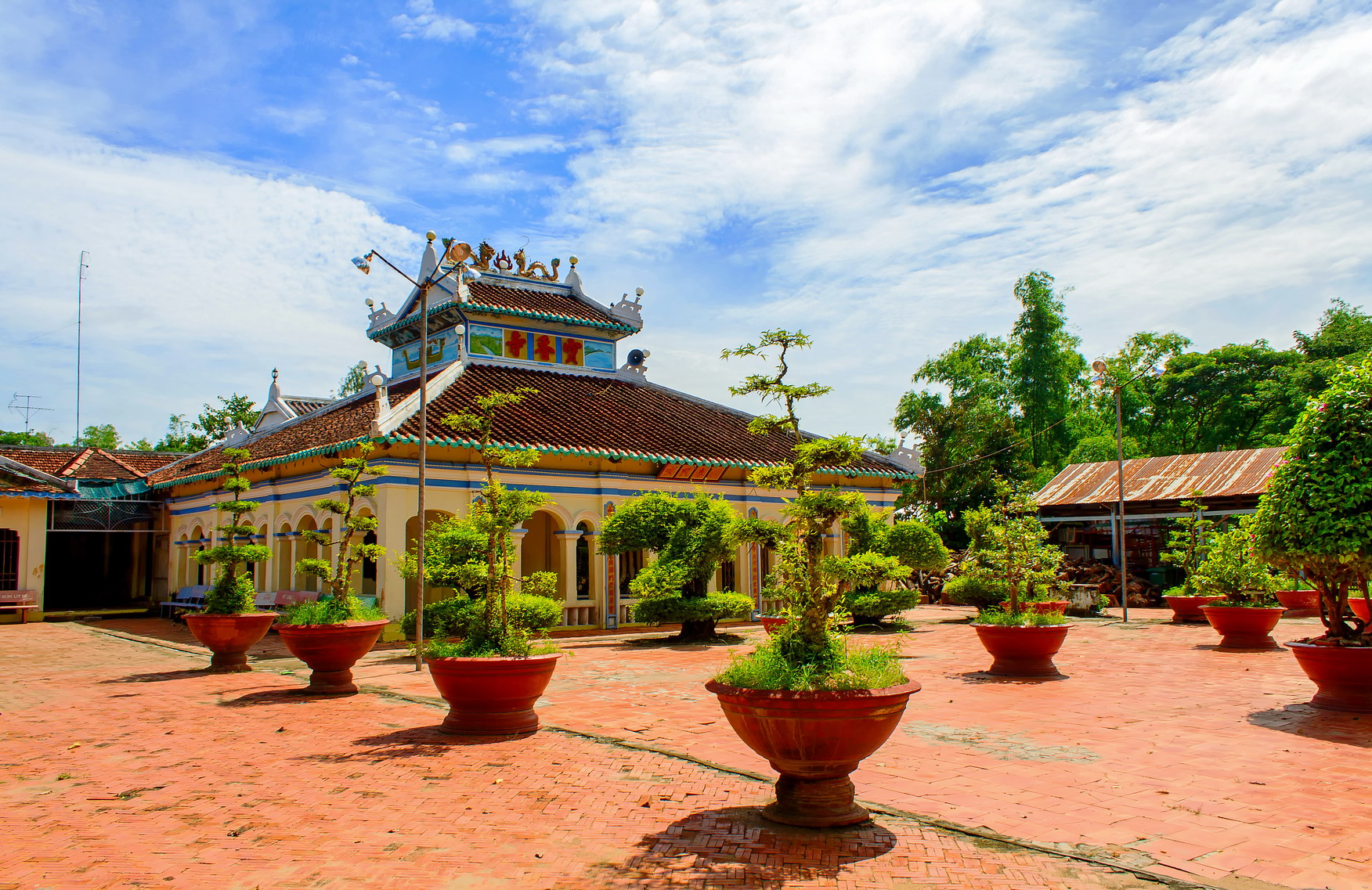 Buu Huong pagoda in Chau Phu, An Giang province, Vietnam